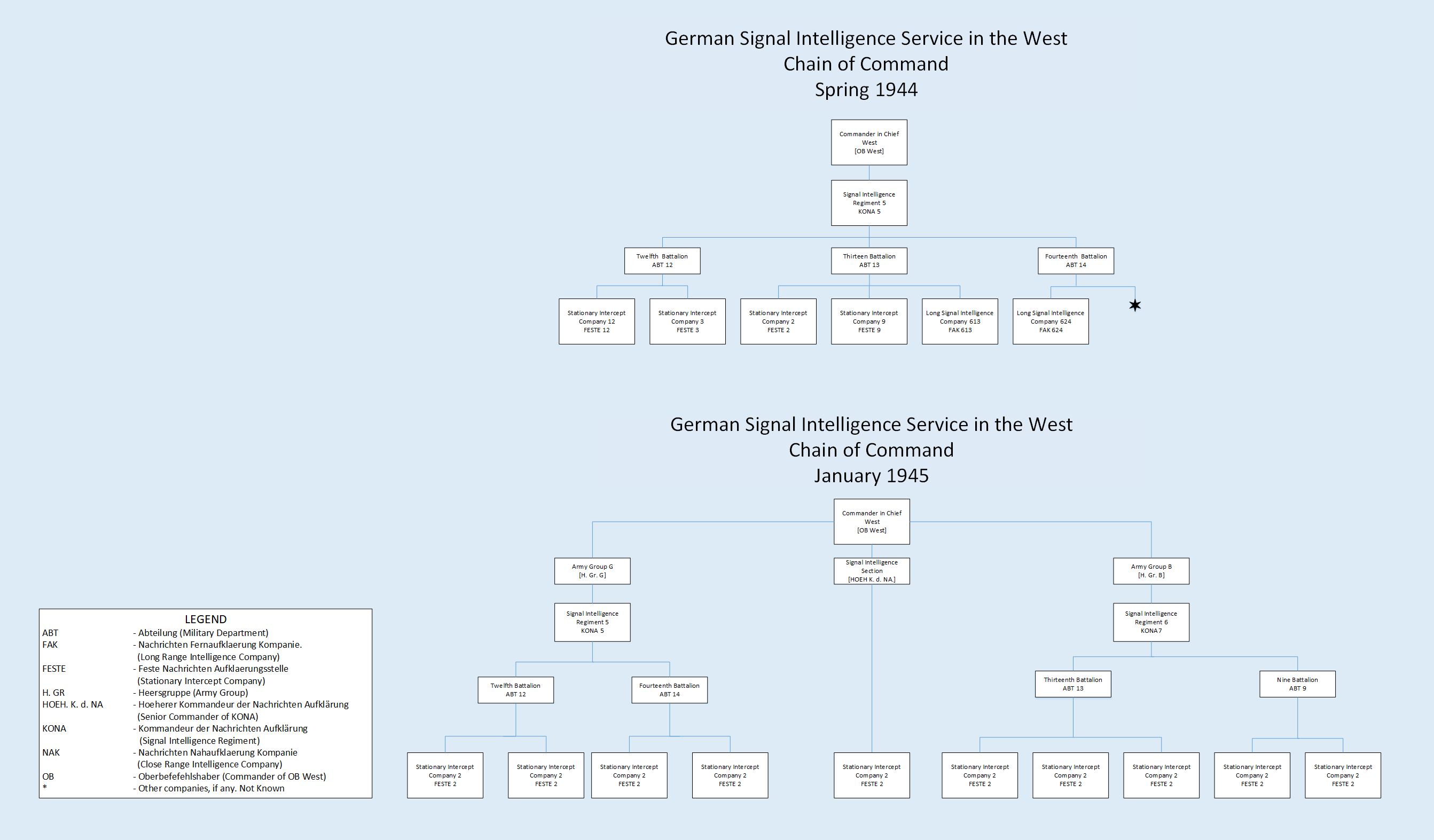 Visio Pro chart of German Signal Intelligence organization between mid 1944 and 1944. Hierarchy Chain of Command chart Other information Image of hierarchy chart, white boxes, on blue background with Legend. From Vol 4 p. 236